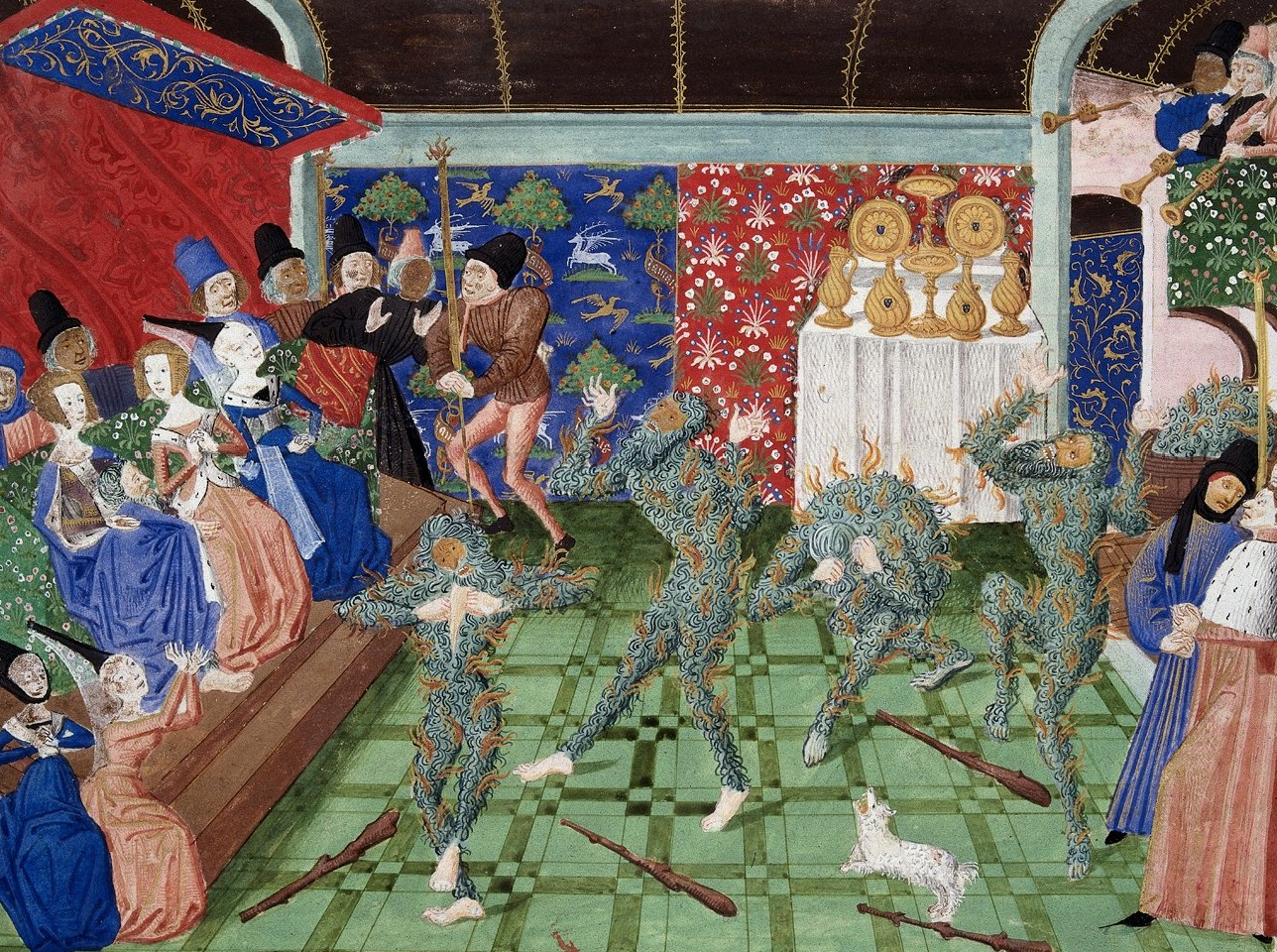 Le Bal des Ardents. Illuminated miniature from Jean Froissart's Chroniques, BL Harley 4380.